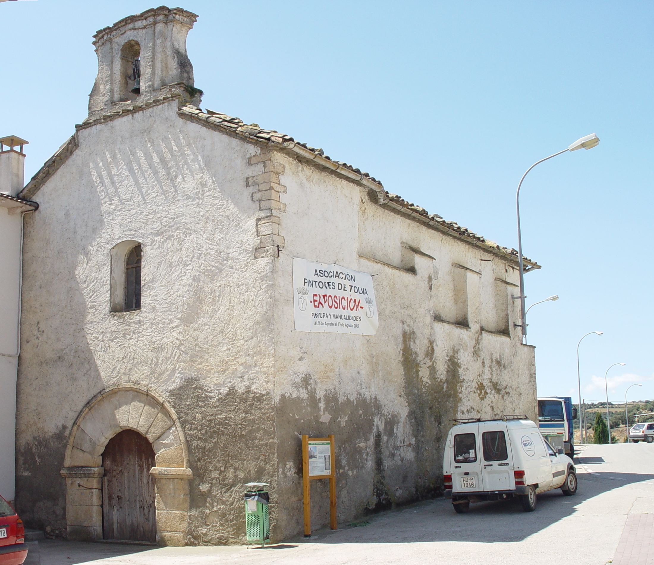 Ermita de Santa Anastàsia de Tolba